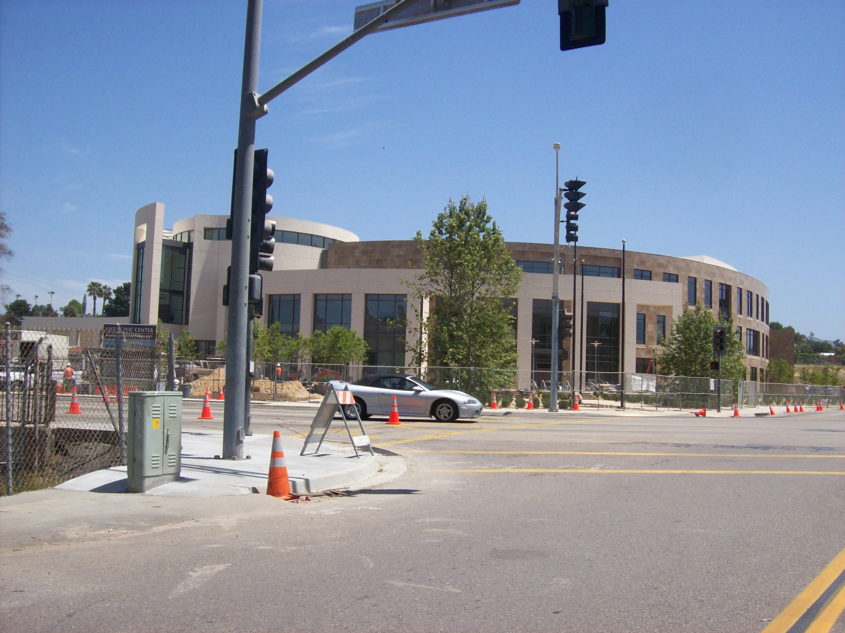 Civic Center. Vista, California.